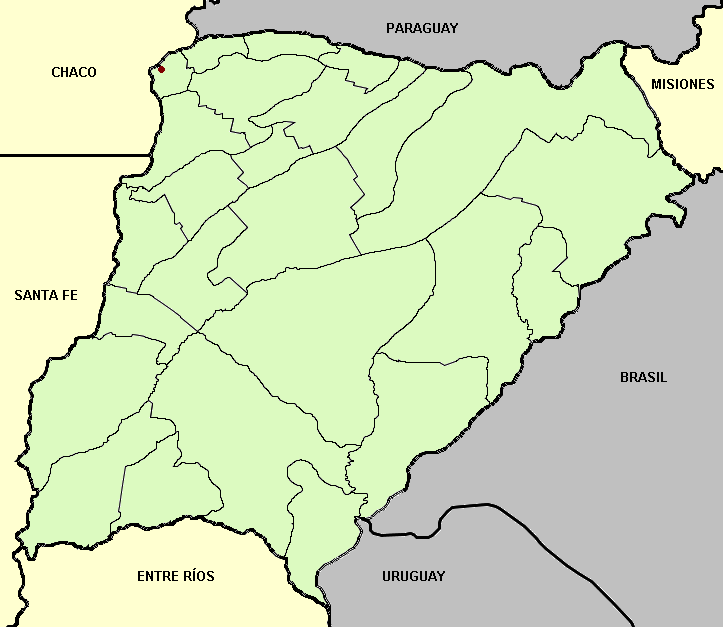 It shows the administrative division of Corrientes province in Argentina, and its capital.